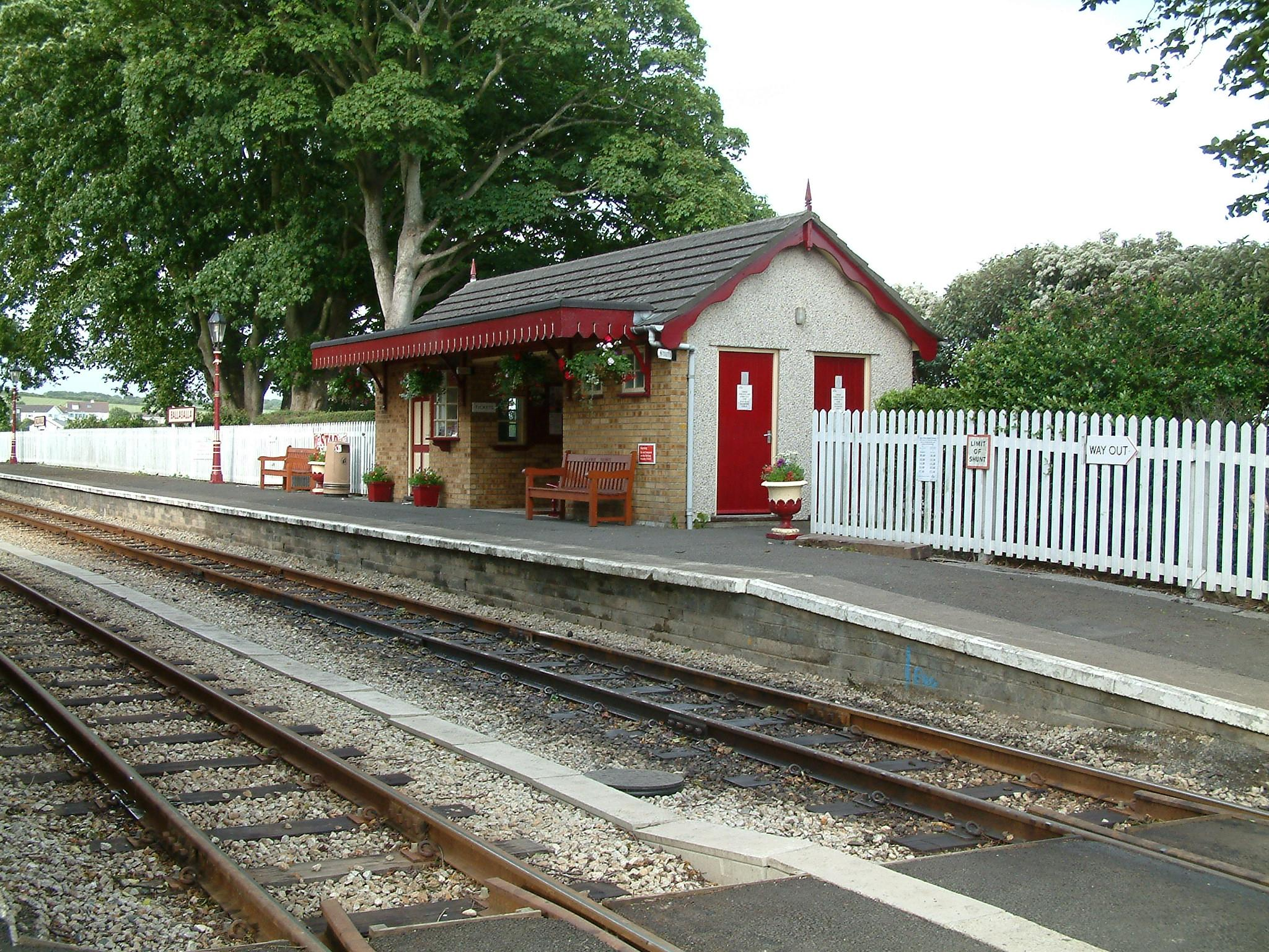 Station building at Ballasalla on the Isle of Man